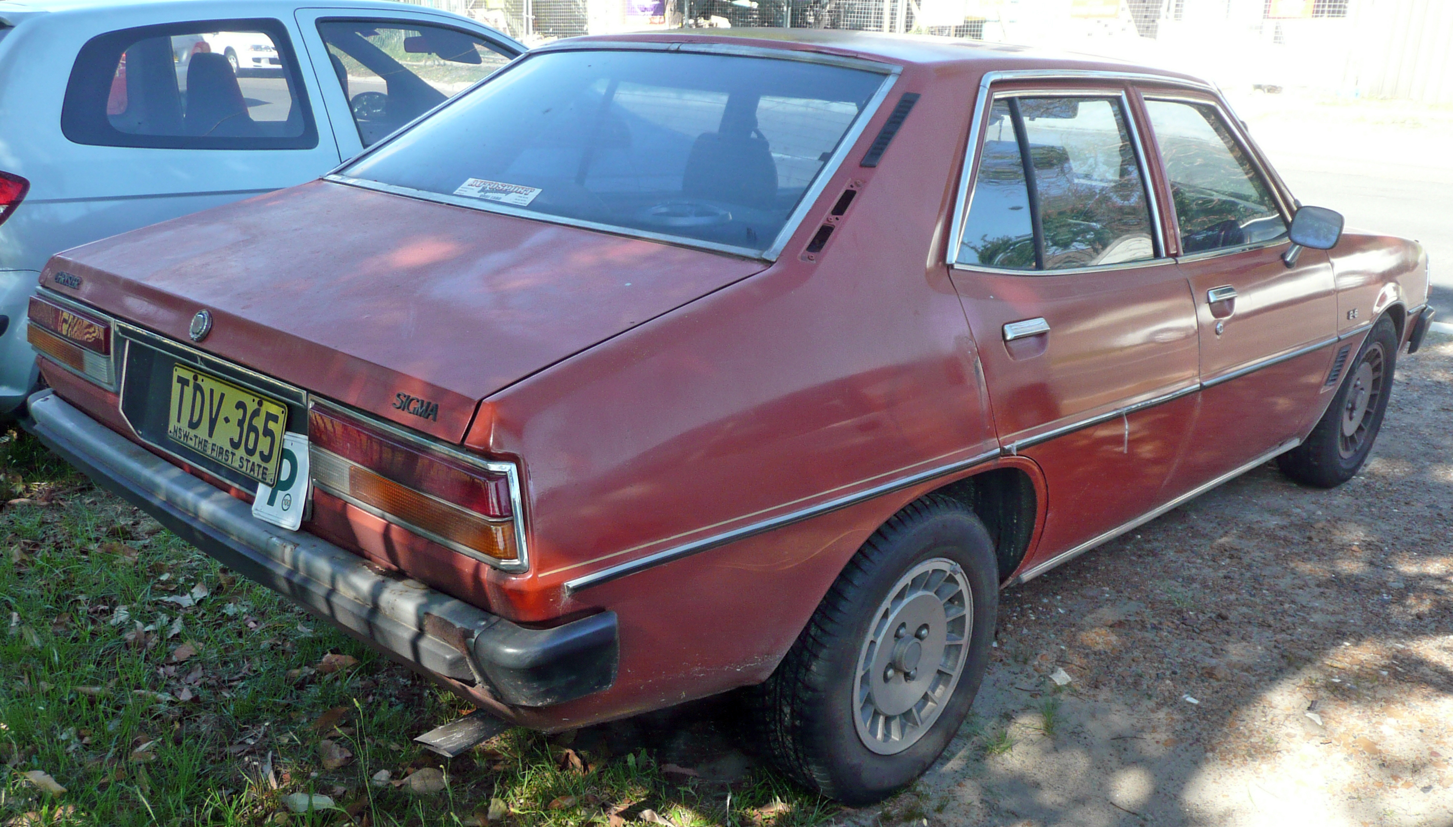 1979–1980 Chrysler Sigma (GE) SE sedan. This example is fitted with the optional 2.6-litre engine and alloy wheels. Photographed in Sutherland, New South Wales, Australia.